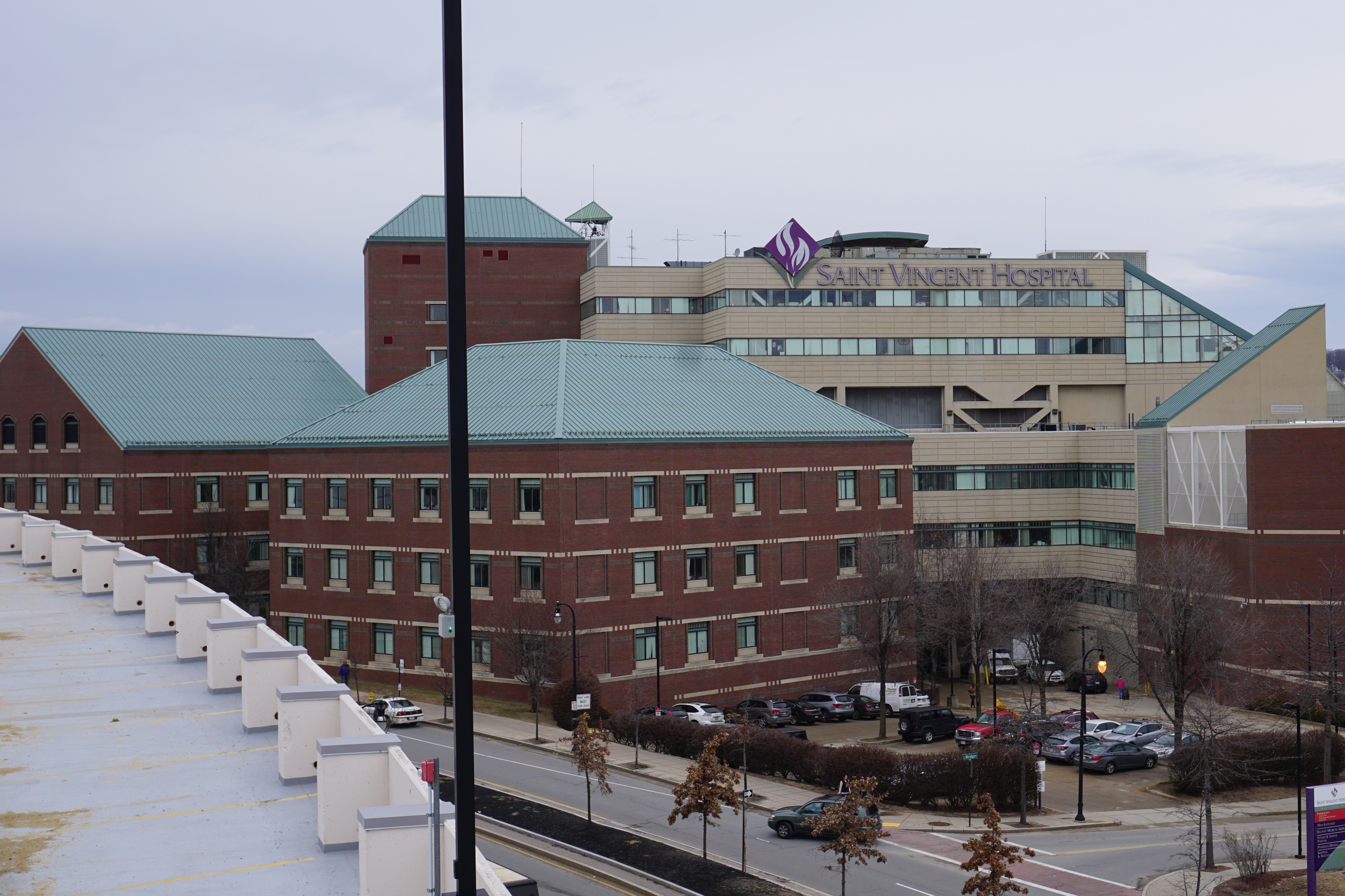 Saint Vincent Hospital at 123 Summer Street in Worcester, Massachusetts (USA) on Feb 16, 2018.